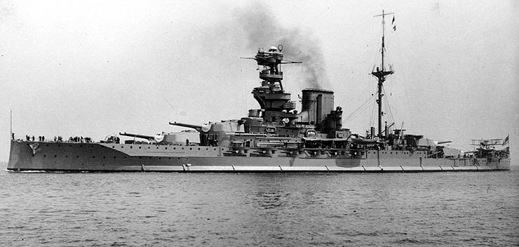 HMS Valiant (1914). From the U.S. Navy Historical Center at